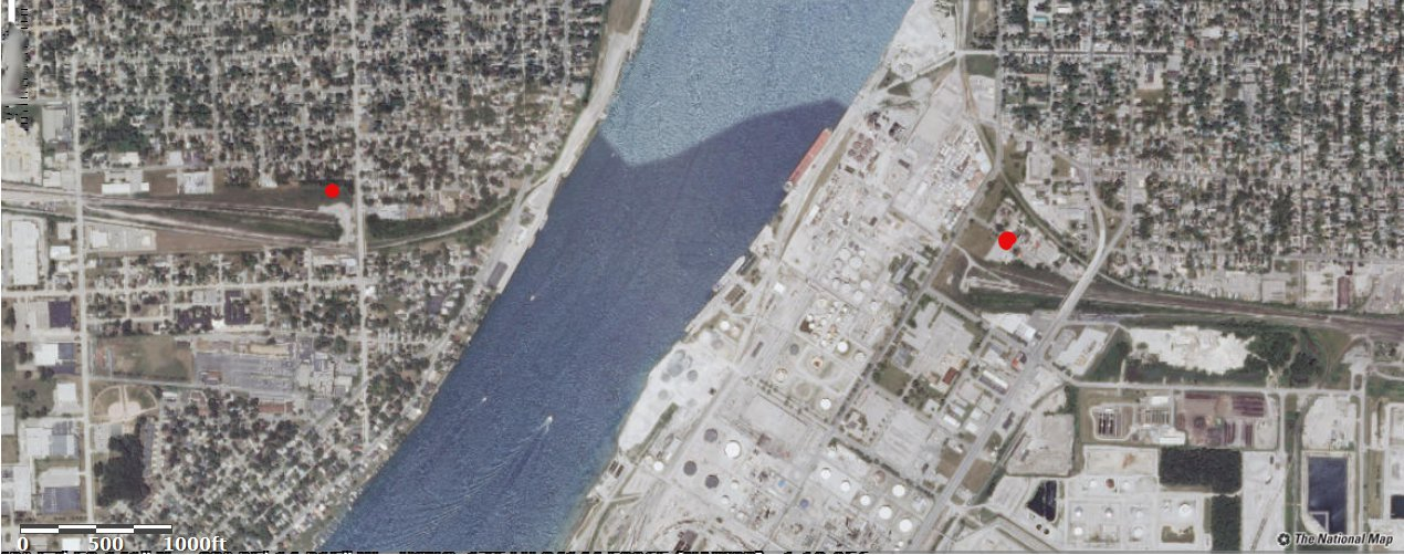 Map showing both entrances to the St. Clair River Tunnel, marked here with red dots. Michigan on the left, Ontario on the right.